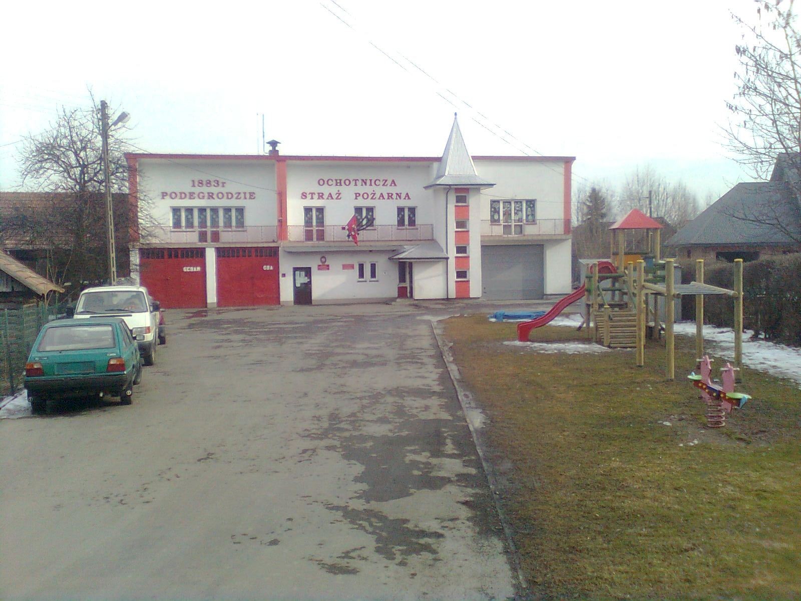 Fire station in Podegrodzie (Lesser Poland Voivodeship)